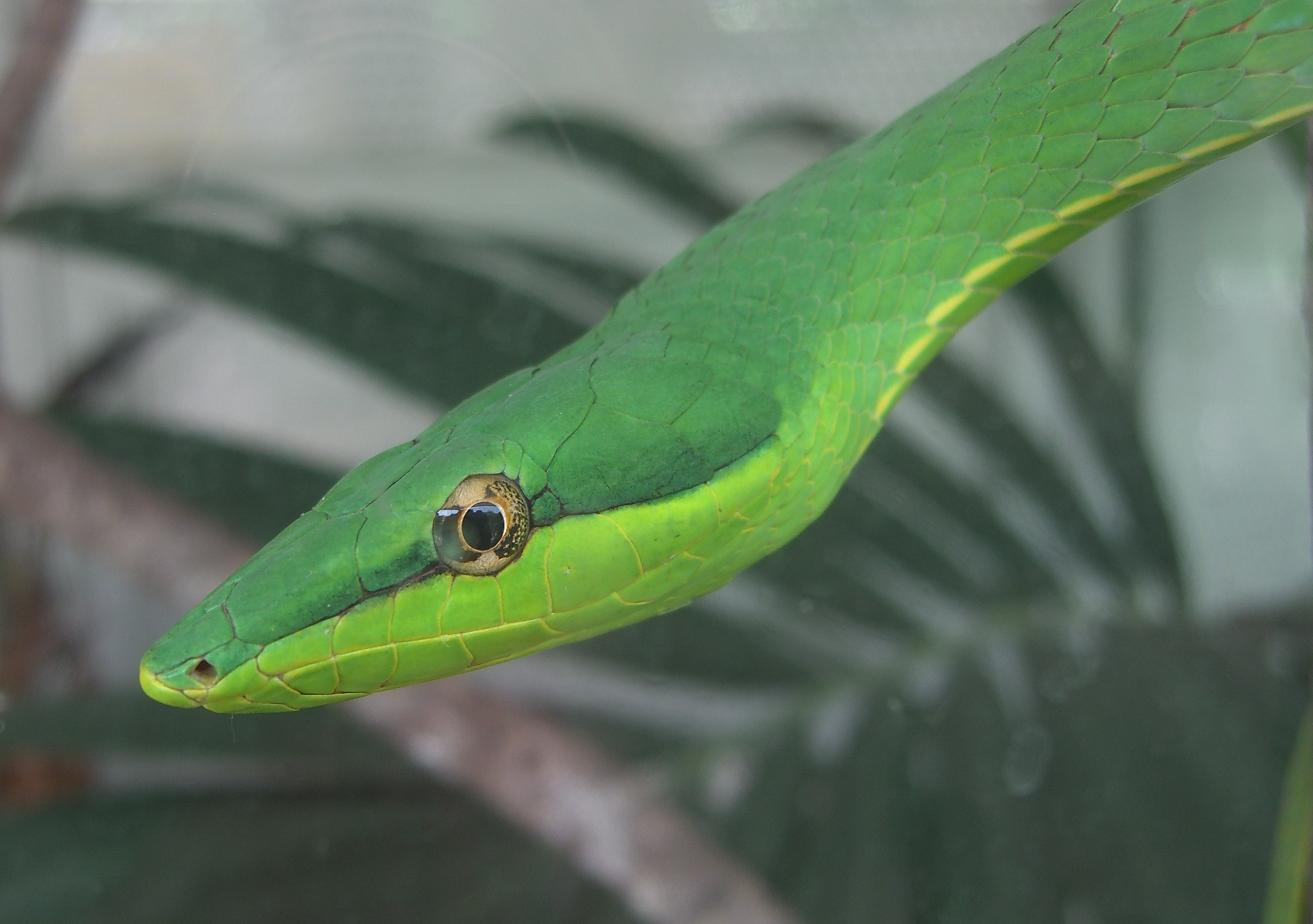 Head of the Oxybelis fulgidus